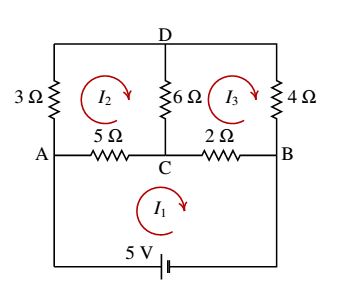 Correntes de malhas no circuito da figura anterior